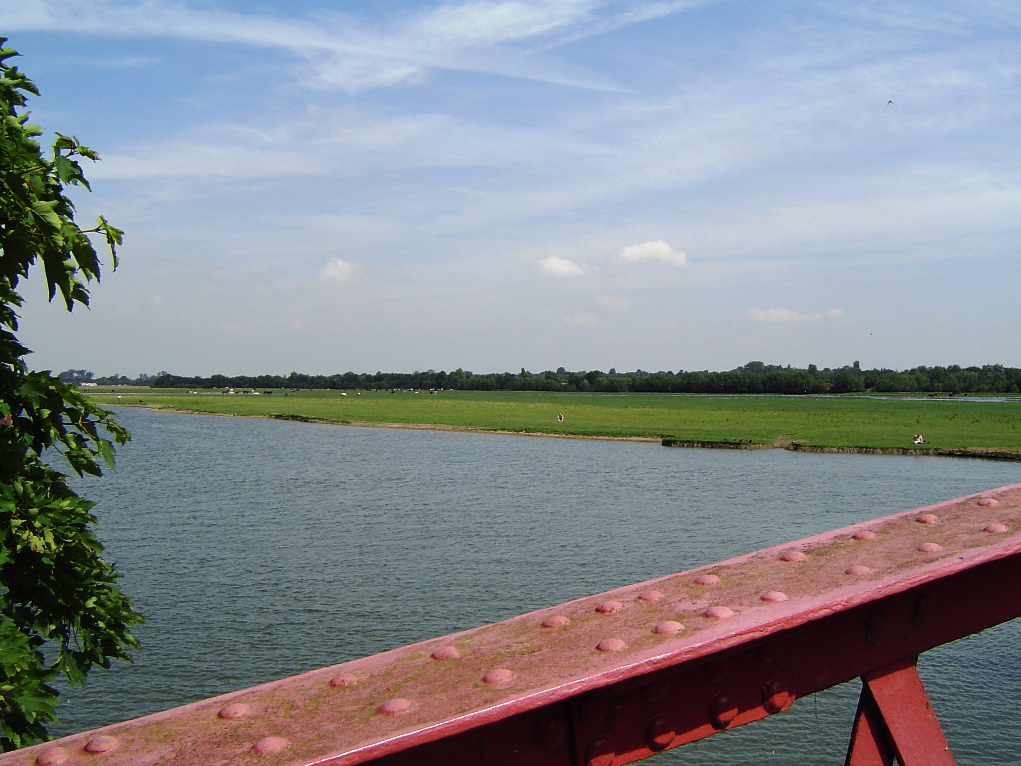 Port Meadow, Oxford, viewed from Medley footbridge over the River Thames